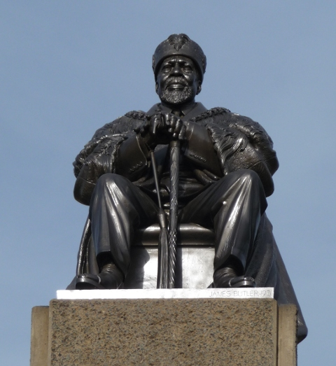 Jomo Kenyatta Statue in front of Kenya High Court, Nairobi